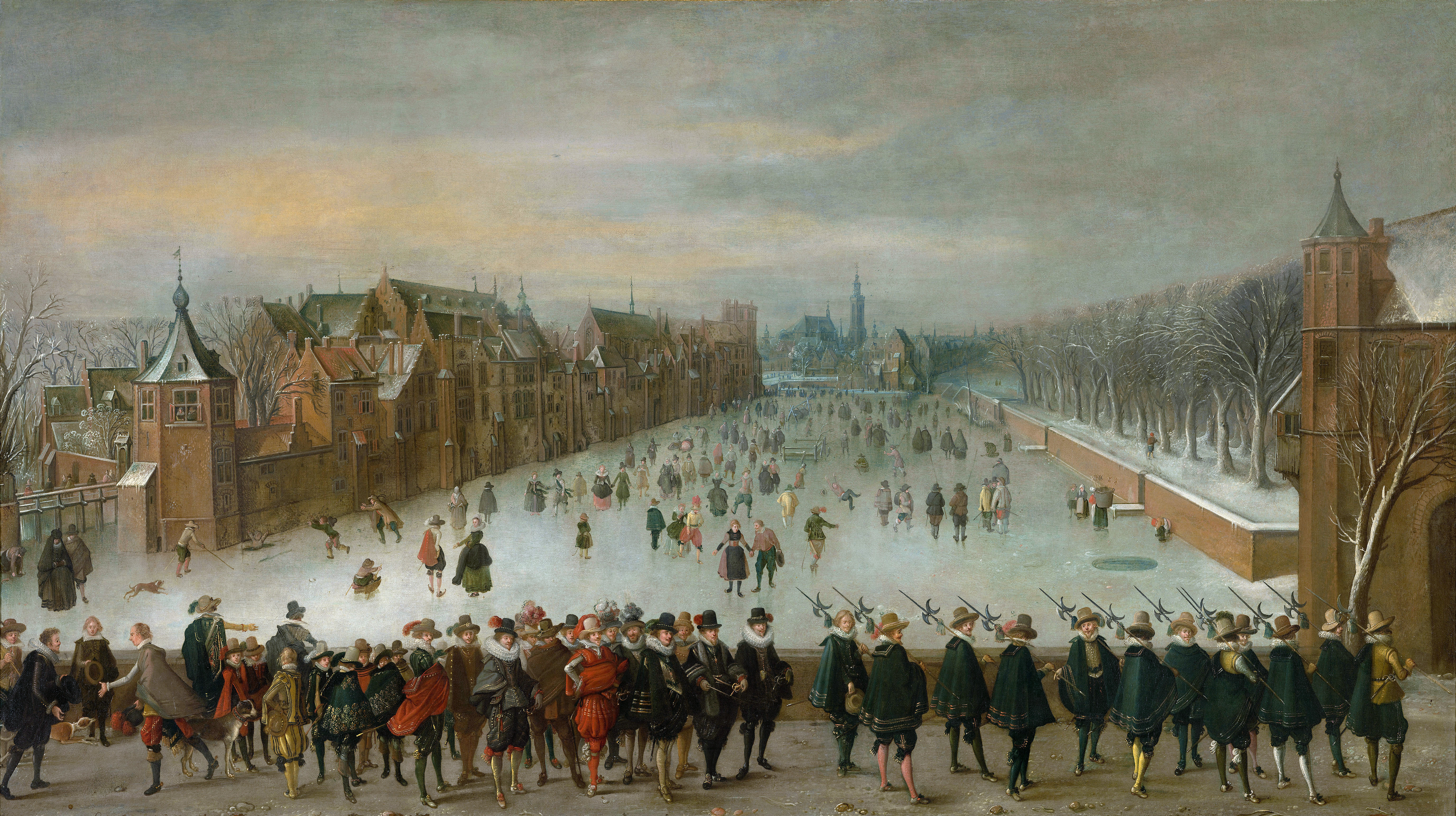 Winter landscape with ice skaters on the Hofvijver lake in The Hague, with on the foreground Prince Maurits and Prince Frederick Henry with courtiers, preceded by a group of halberd guardsmen.